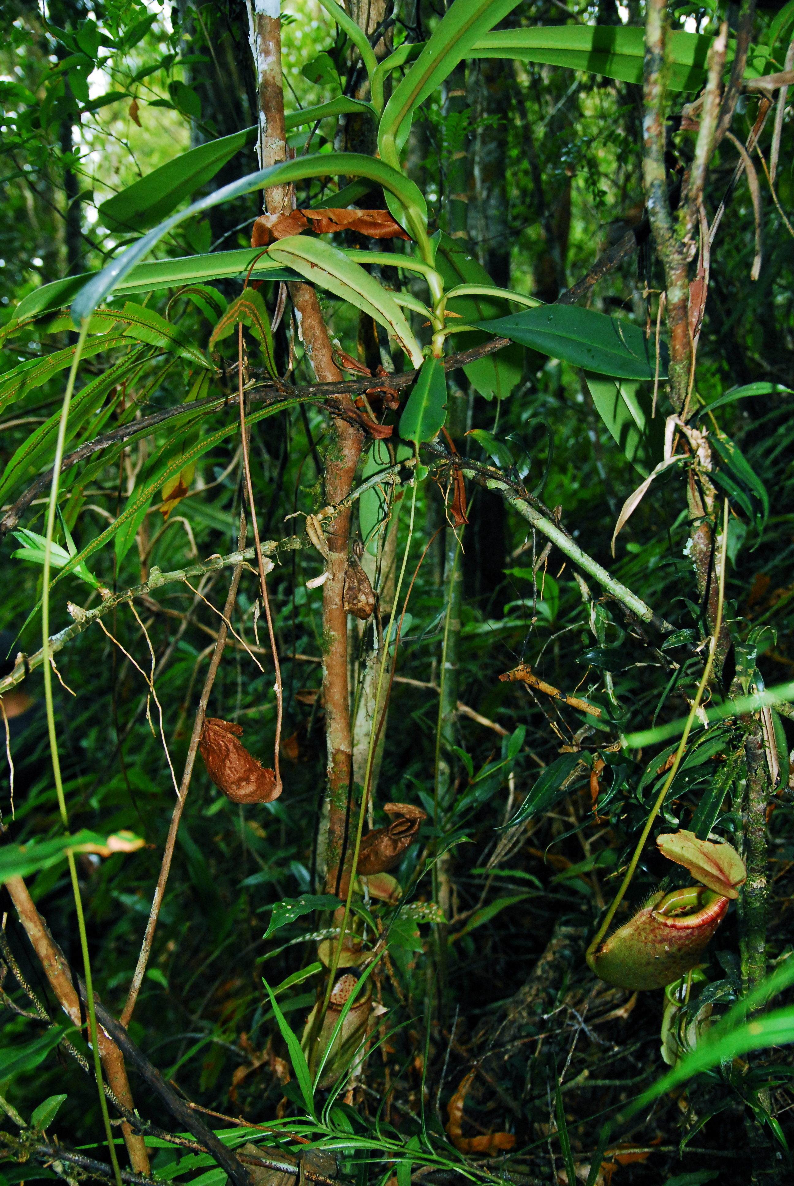 Nepenthes surigaoensis plant from Mount Masay, Mindanao, Philippines